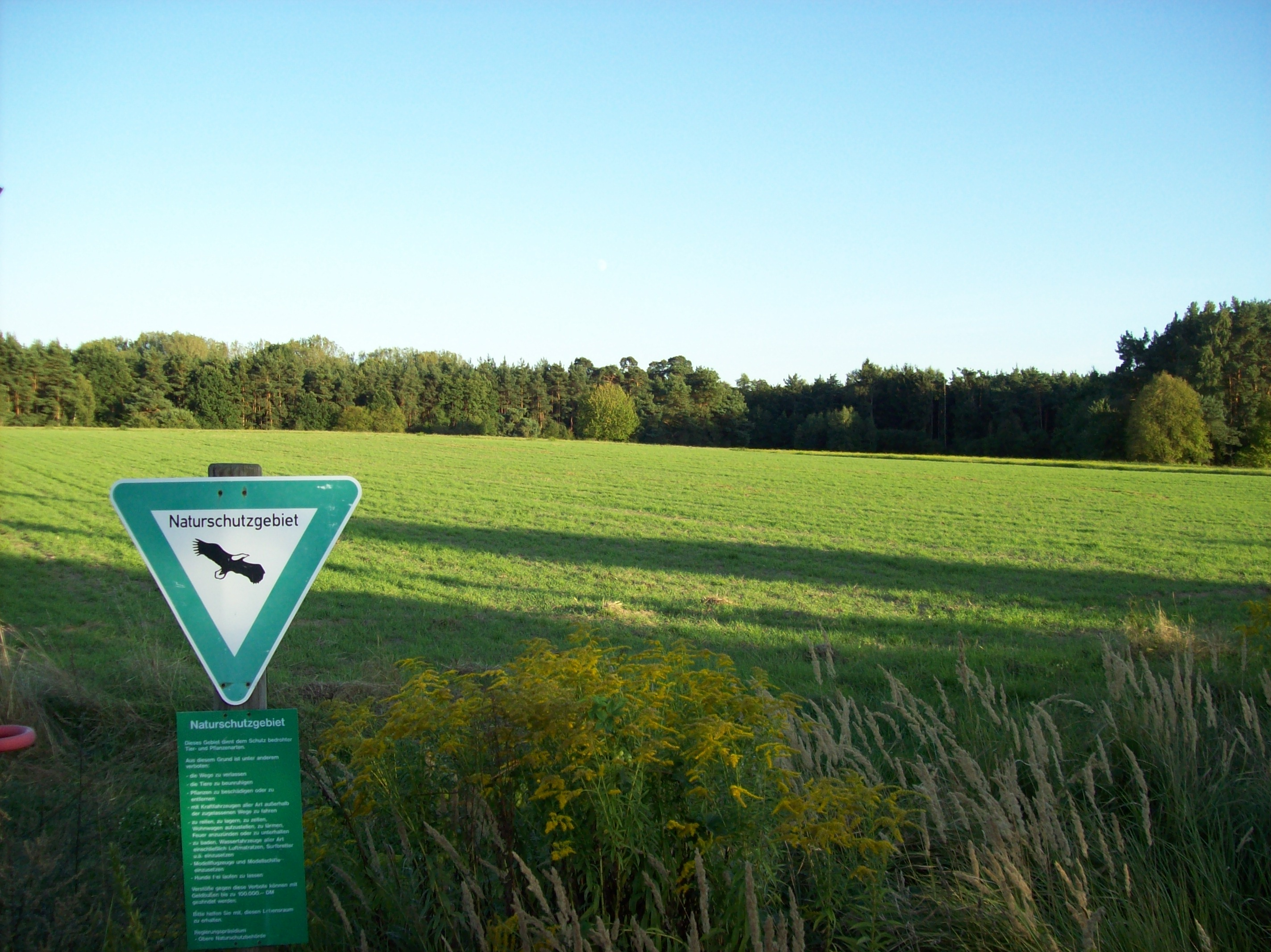 Nature reserve "Erlensteg von Bieber" in Offenbach-Bieber, Germany